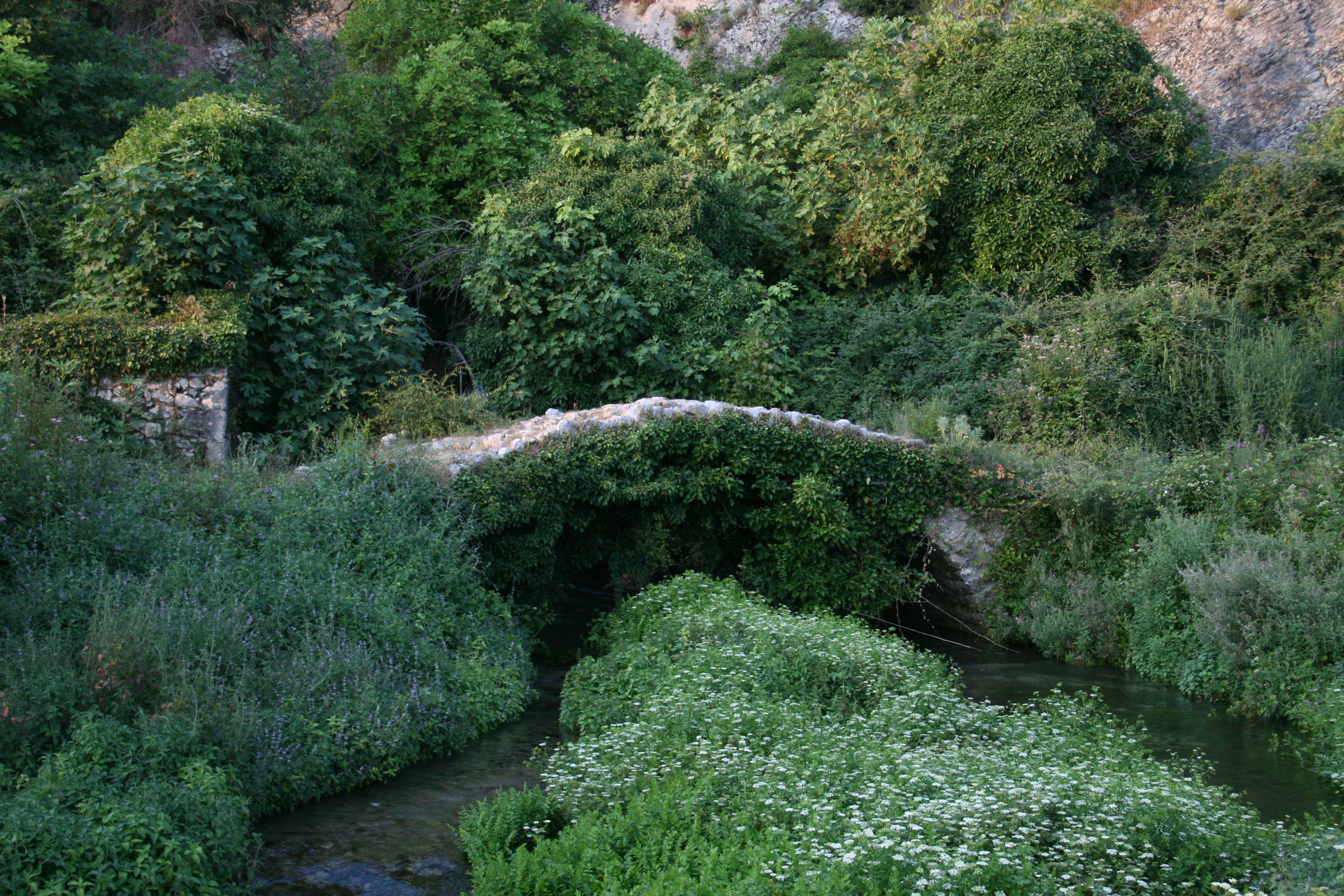 Ottoman bridge in Studenci (Ljubuški)